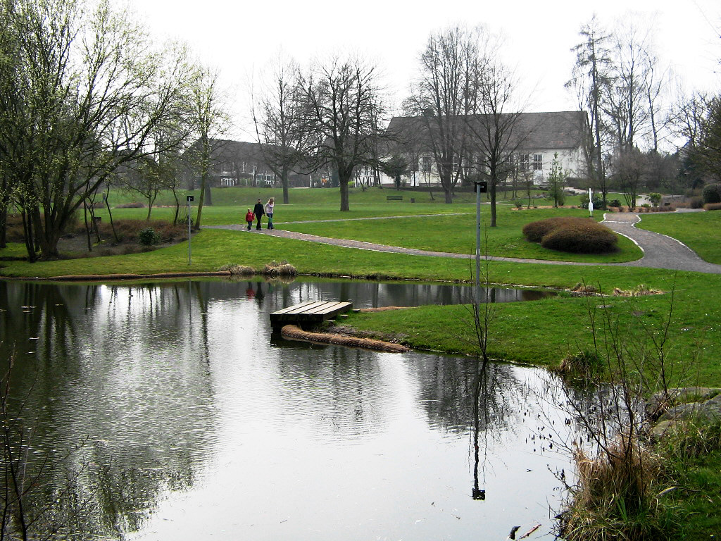 Bomlitz (Lower Saxony, Germany): Park and elementary school